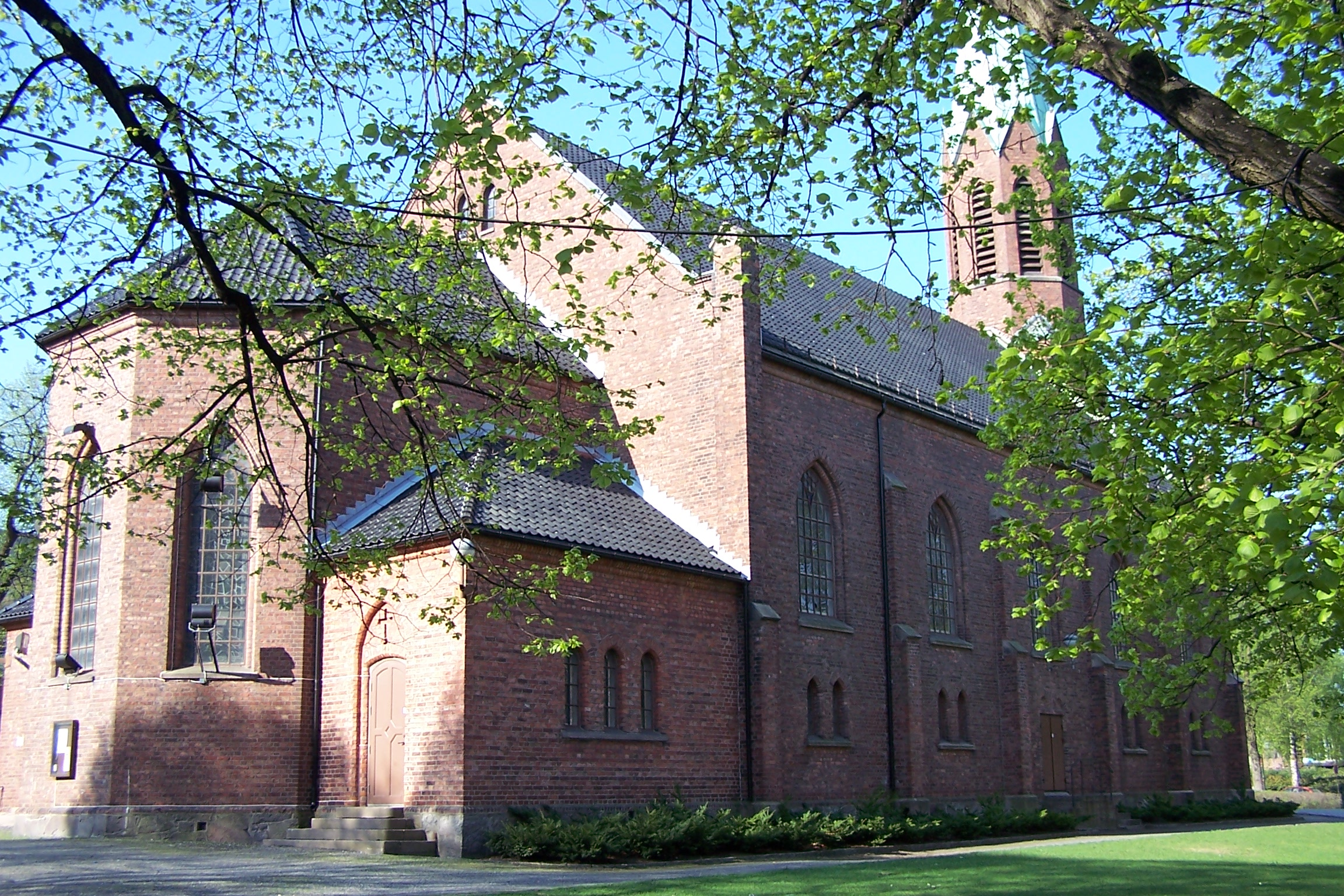 Moss church (Church of Norway) in the centre of Moss, Norway